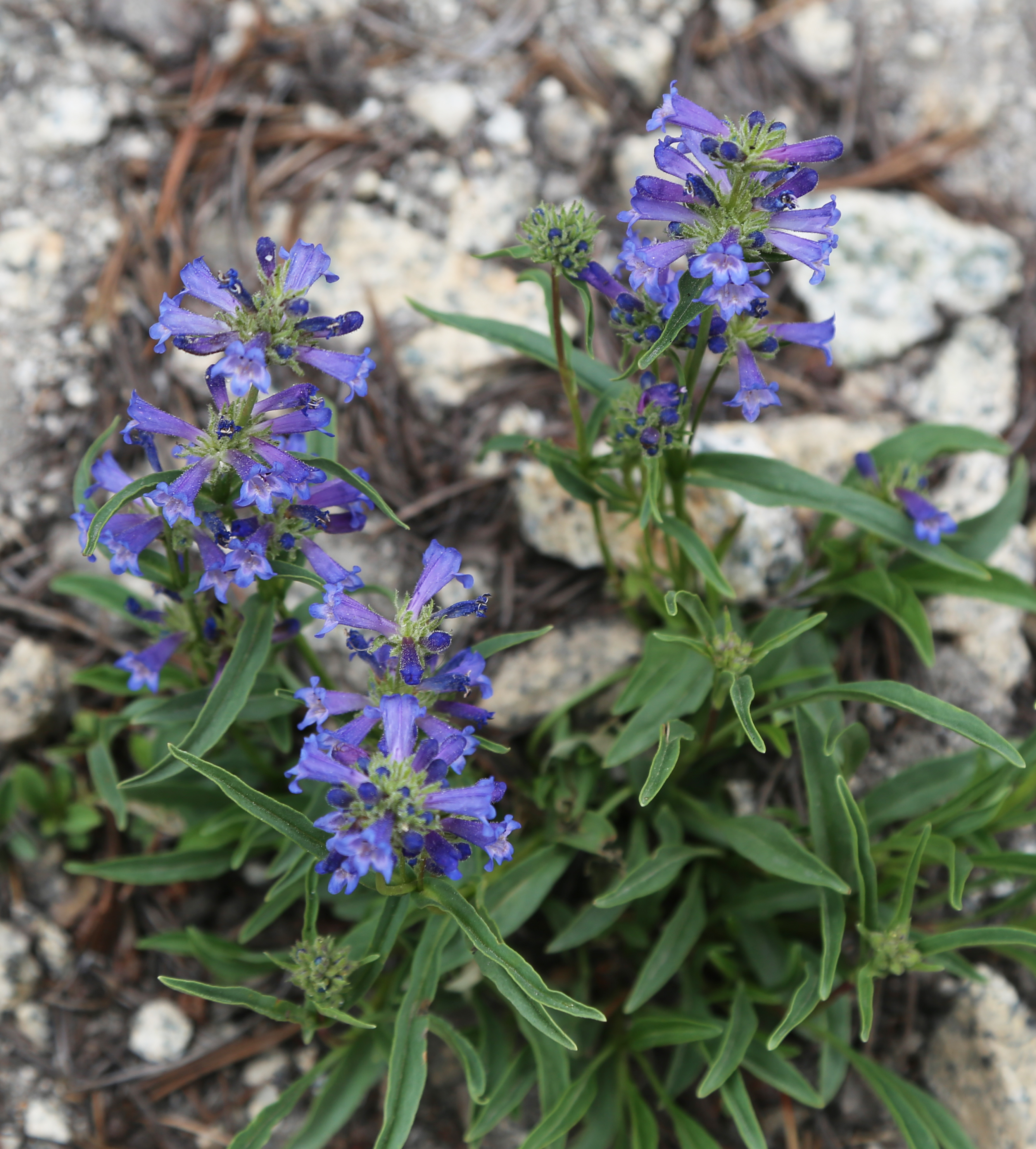 Sierra whorled penstemon (Penstemon heterodoxus) clump of flowers and leaves. Along the trail into Little Lakes Valley, John Muir Wilderness, Sierra Nevada USA.